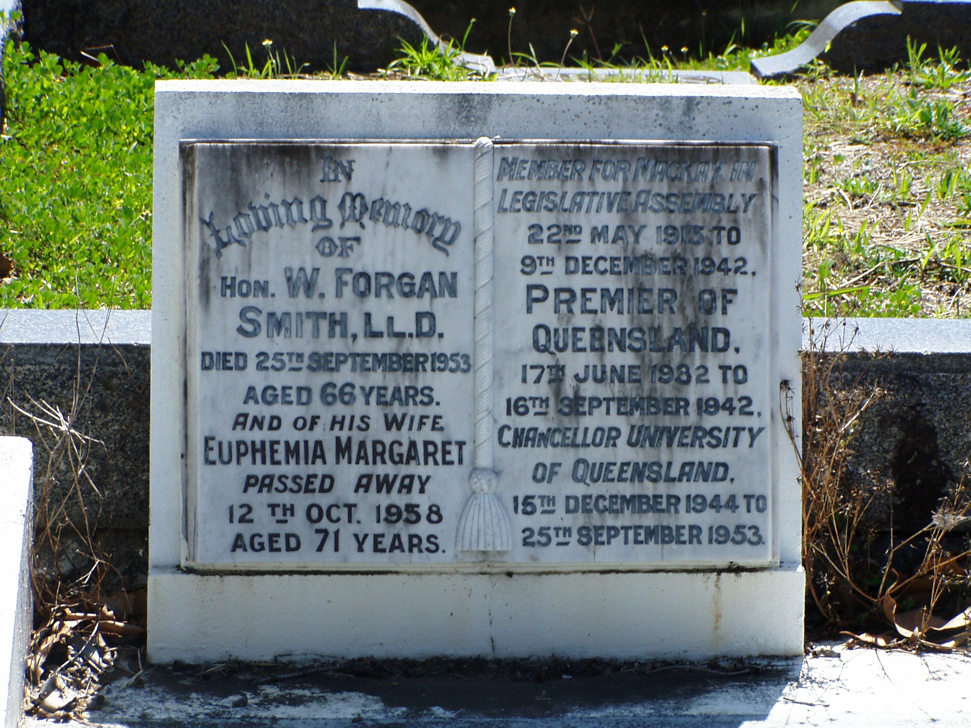 The headstone of William Forgan Smith at Brisbane's Toowong Cemetery